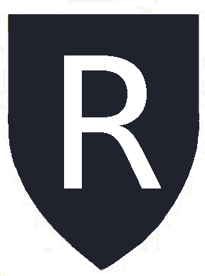 Sleeve insignia of R Force. After original in Imperial War Museum